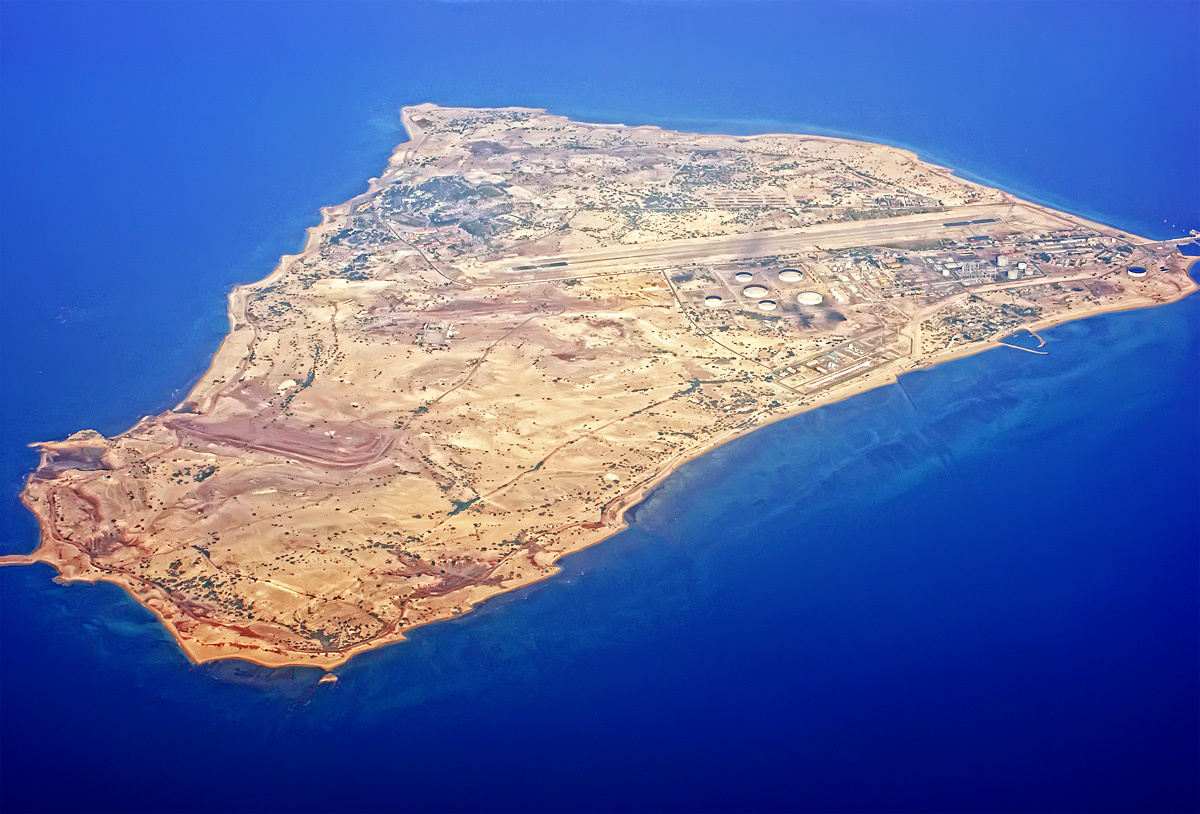 Aerial photograph of Sirri Island